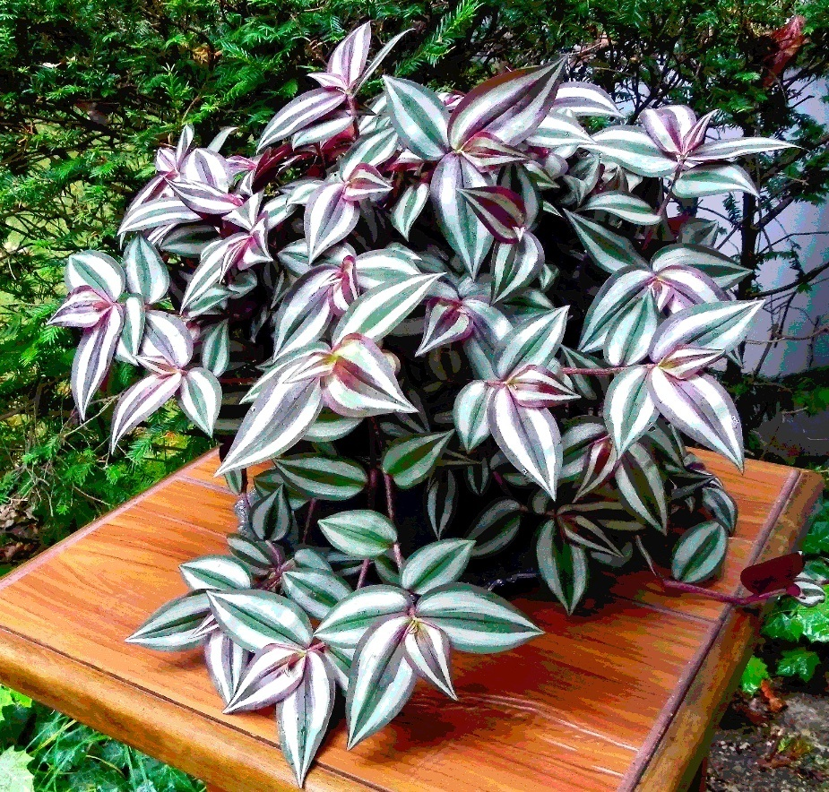 Scientific name: Tradescantia zebrina. The underside of the leaf is red-purple and smooth. The upper leaf surface is with green and fine-rough silver stripes.